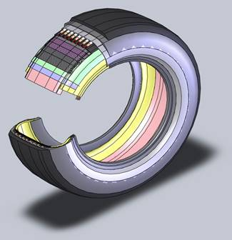 The new AEG Zero Pressure Tire will withstand a minimum of 50 mph speeds more than 60 miles once it’s punctured based on results.